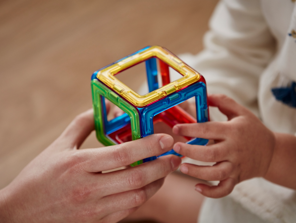 Magformers piece